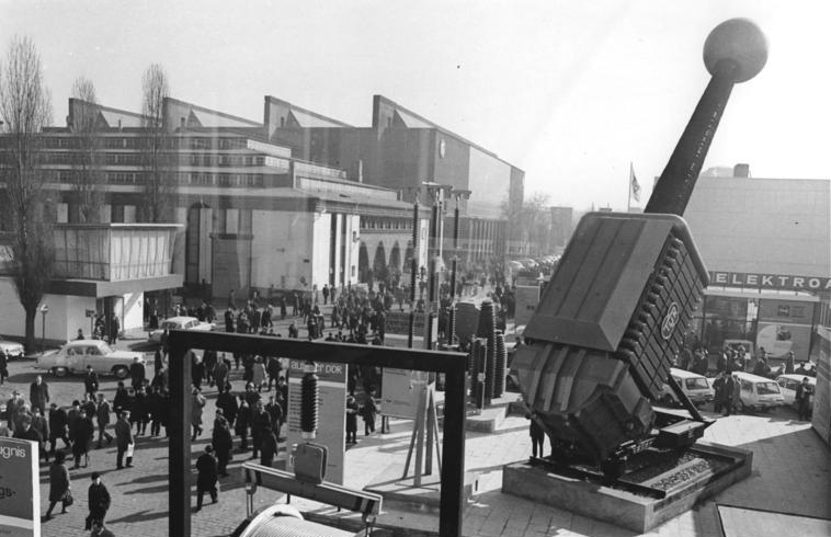 Leipzig Spring Fair, open area, utility transformer, March 7, 1969 The Leipziger high fair of 1969. In the foreground, a 1200 kilovolt, single-phase utility transformer which VEB Transformers and Rontgenwork Dresden presents for the first time